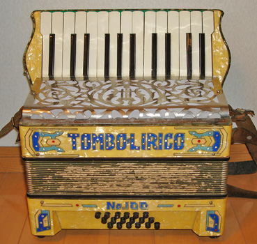 A vintage model, accordion, Tombo Lirico, made in 1930s.